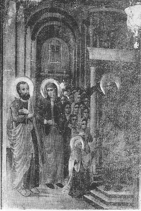 Presentation of Mary Icon in Saint Mary Archontiki Church in Lamia, 1864, Stergios Dimitriou